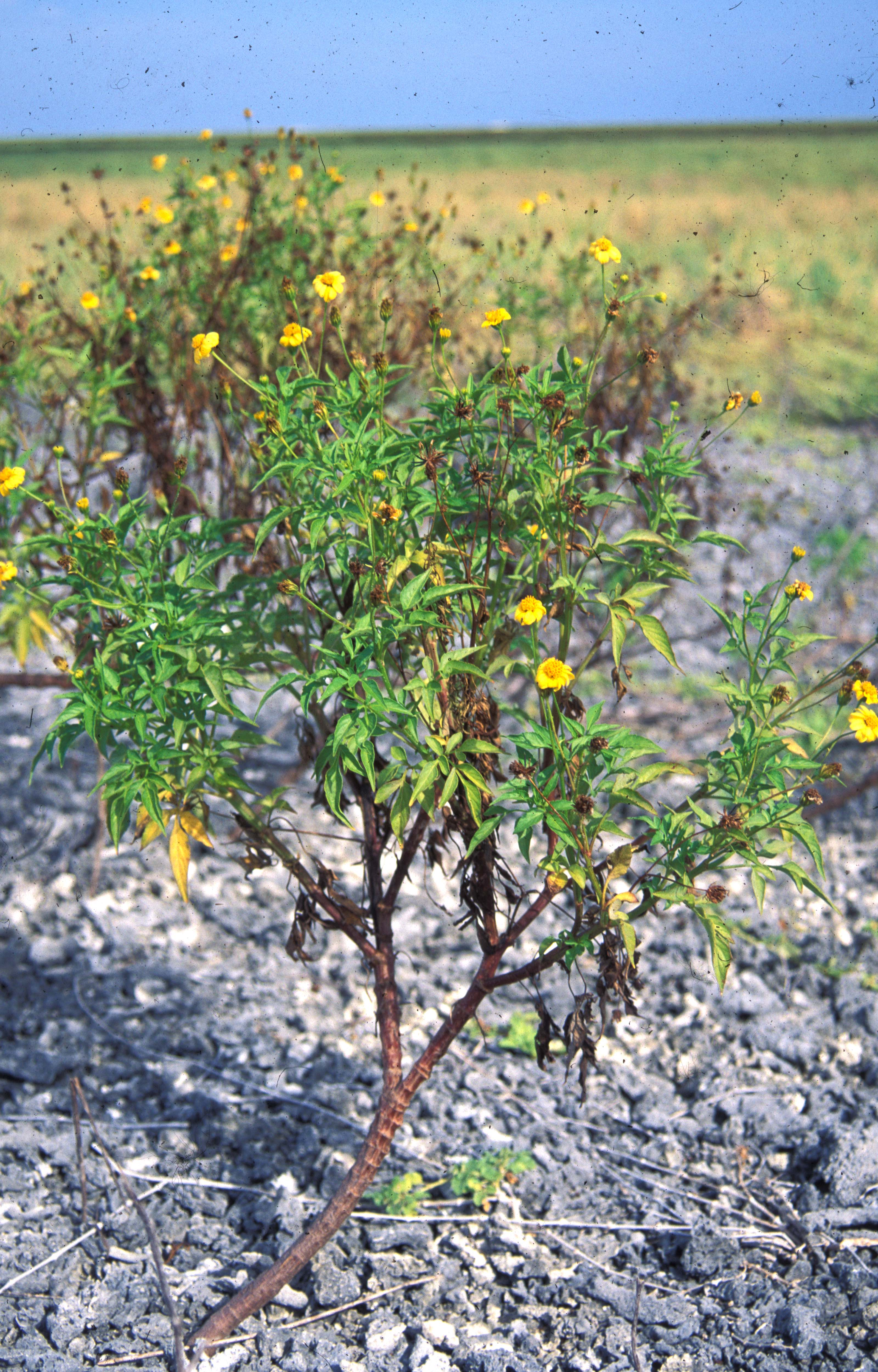 Endemic plant Bidens kiribatiensis on Starbuck Island, Line Islands, Kiribati.